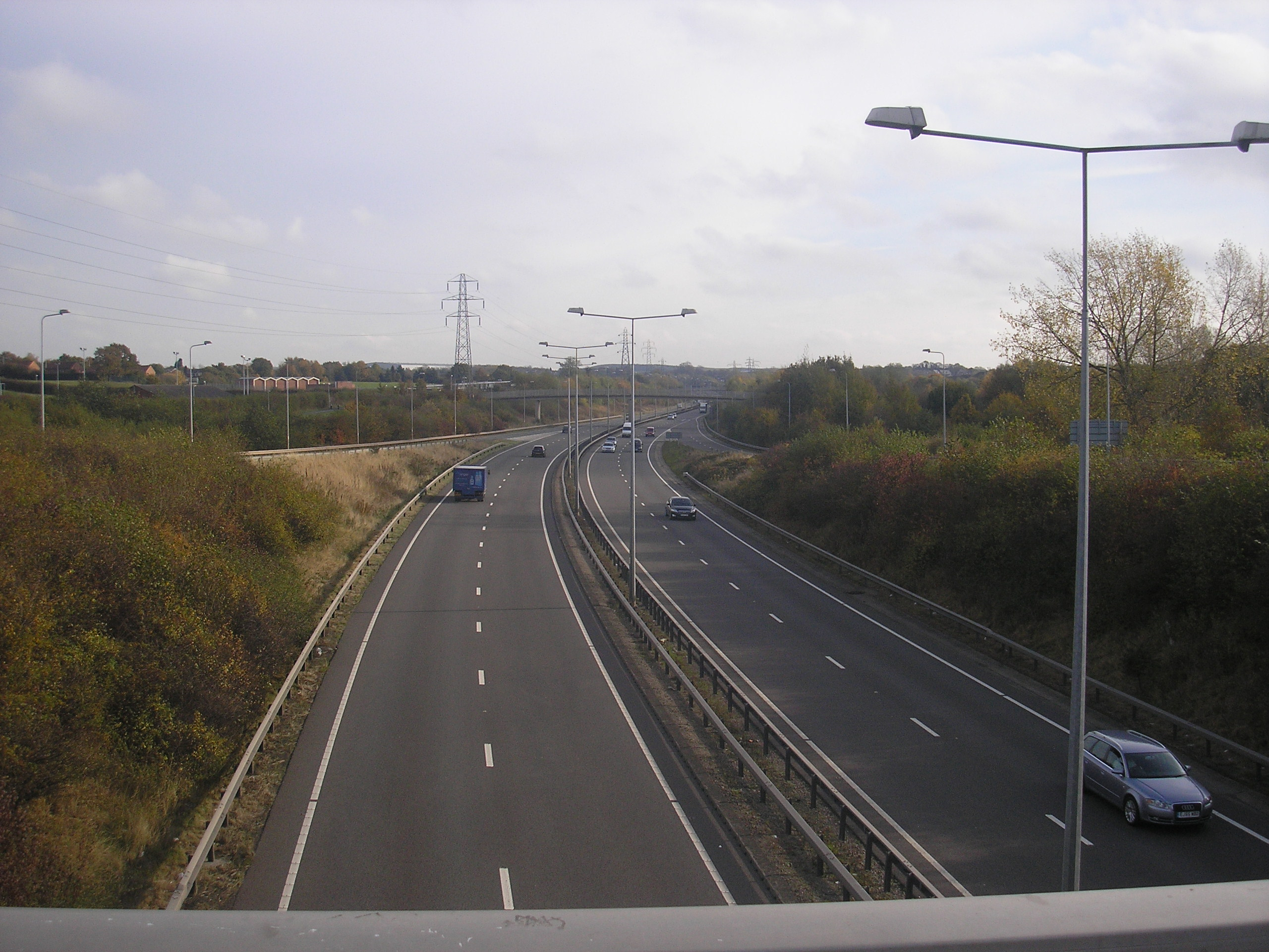 A view looking south along the A5 in Tamworth.